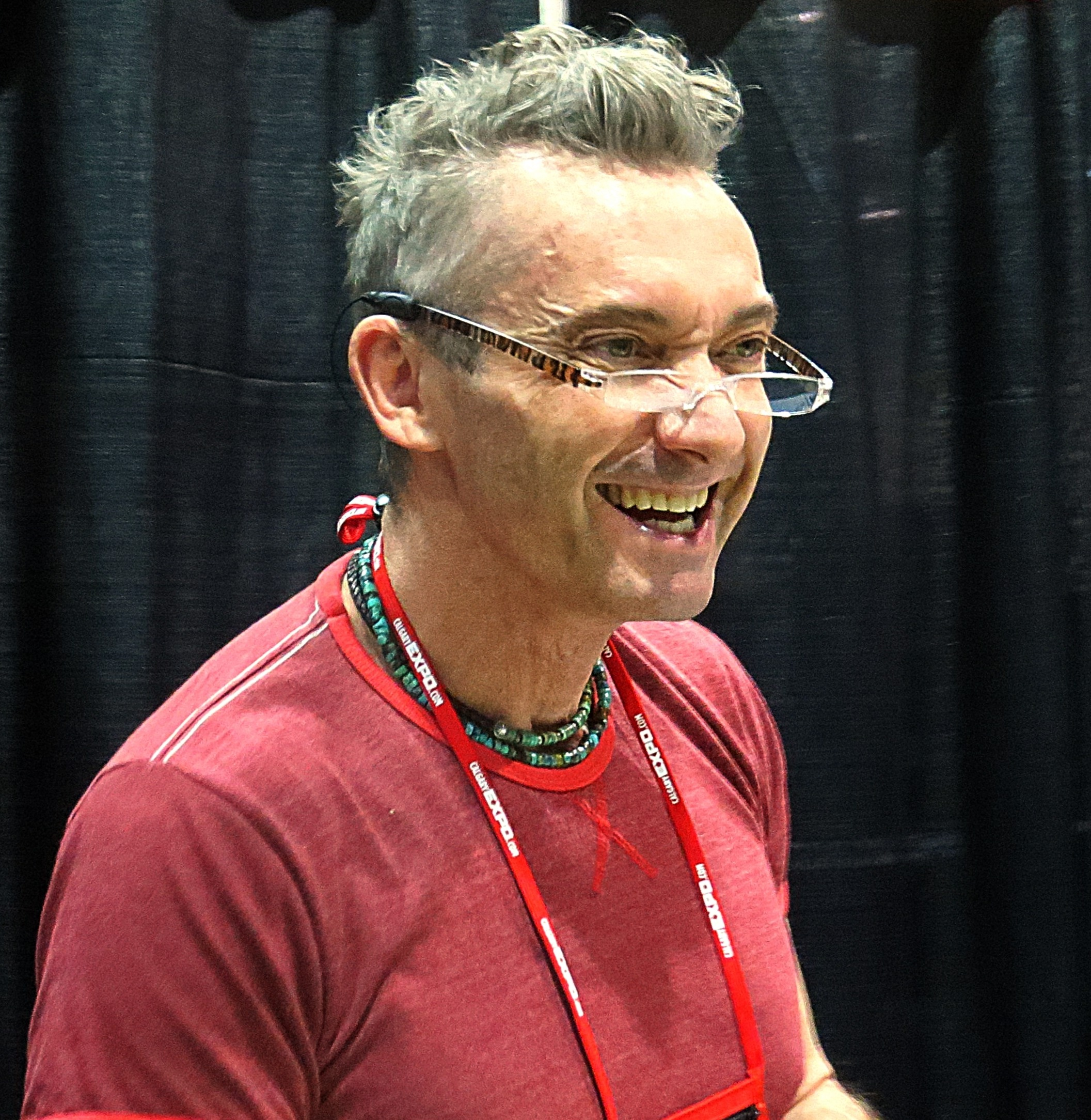 Cam Clarke is an American voice actor known for his voice-work in animation and video games. He is best known for providing the voice of Leonardo in the original Teenage Mutant Ninja Turtles.